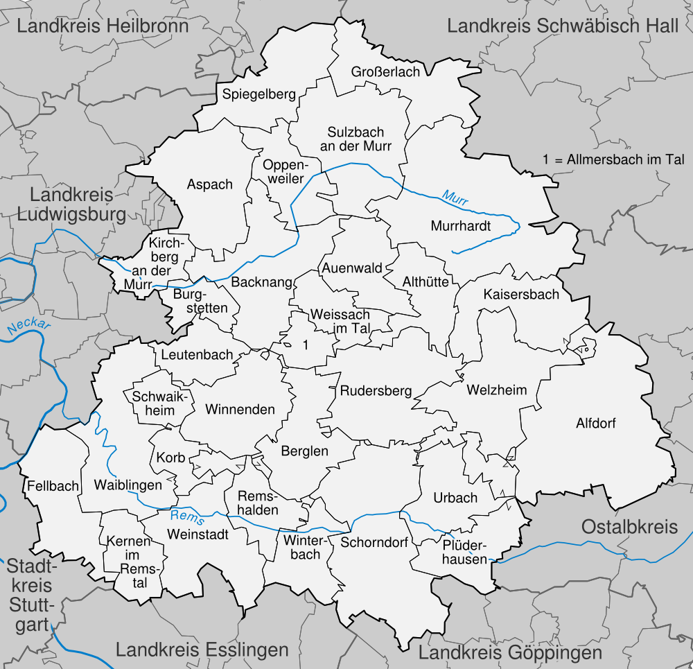 municipalities in Rems-Murr-Kreis, Baden-Württemberg, Germany.